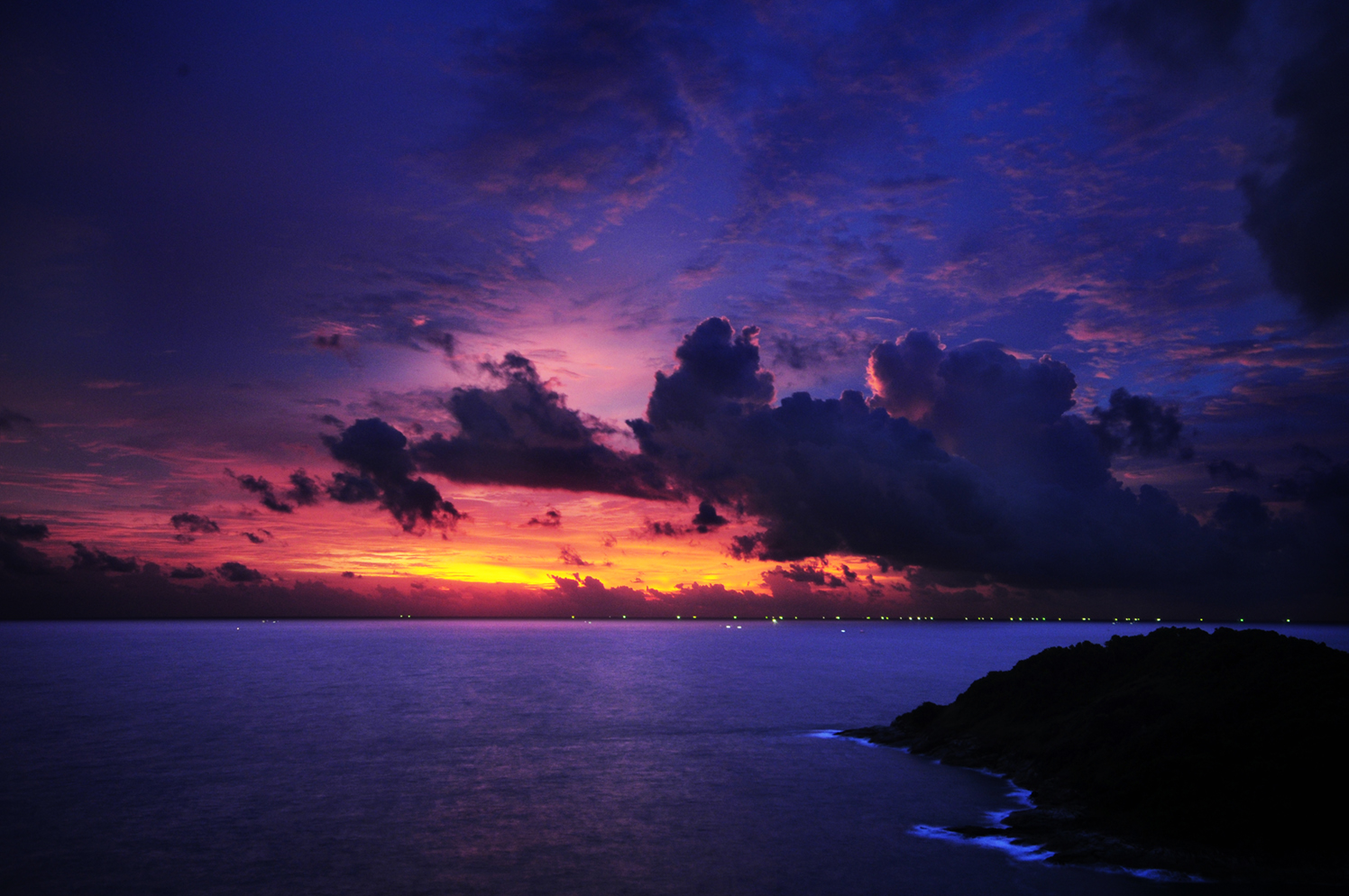 Phuket sunsets is just like any other. But after that, the streets at Patong will swing to a different tempo... About Patong on Phuket Island, Thailand Patong Beach is the most popular and well-developed beach on Phuket Island. Long recognized as one of the world's Top 10 diving sites, Phuket is now Thailand's most important tourist destination, offering a variety of beaches, attractions and exciting night life.